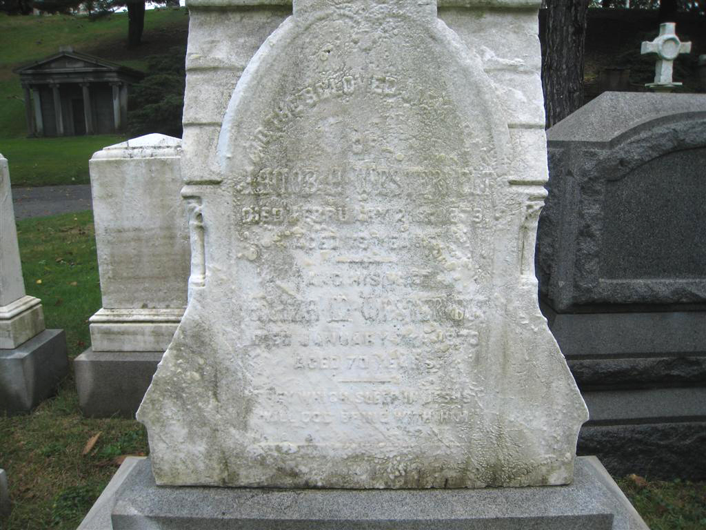 Grave of the shipbuilder and former New York City Mayor Jacob Aaron Westervelt at the Greenwood Cemetery, Brooklyn, New York. Plot: Section 100, Lot 9434